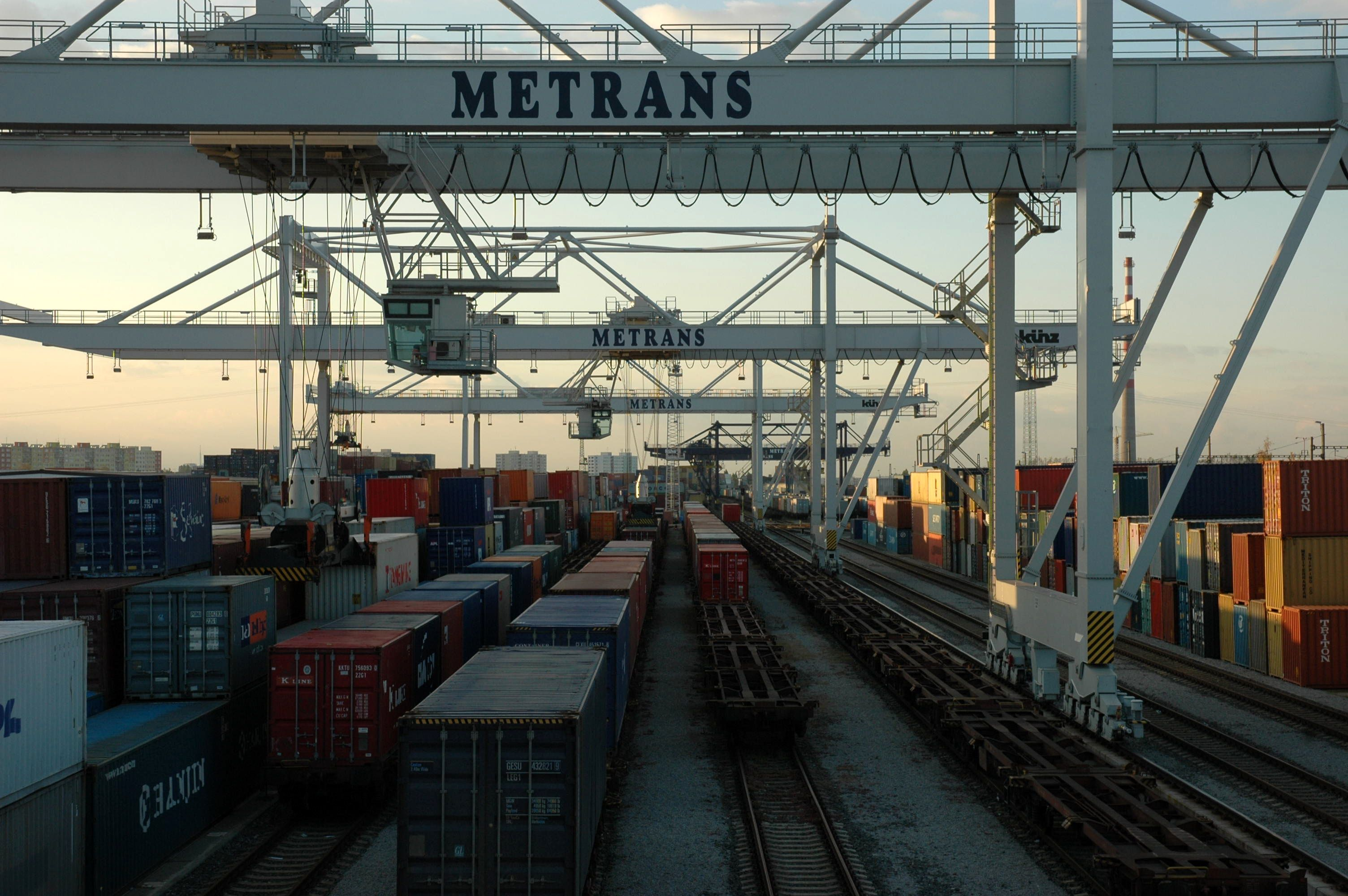 METRANS Container terminal Praha-Uhříněves, Czech Republic